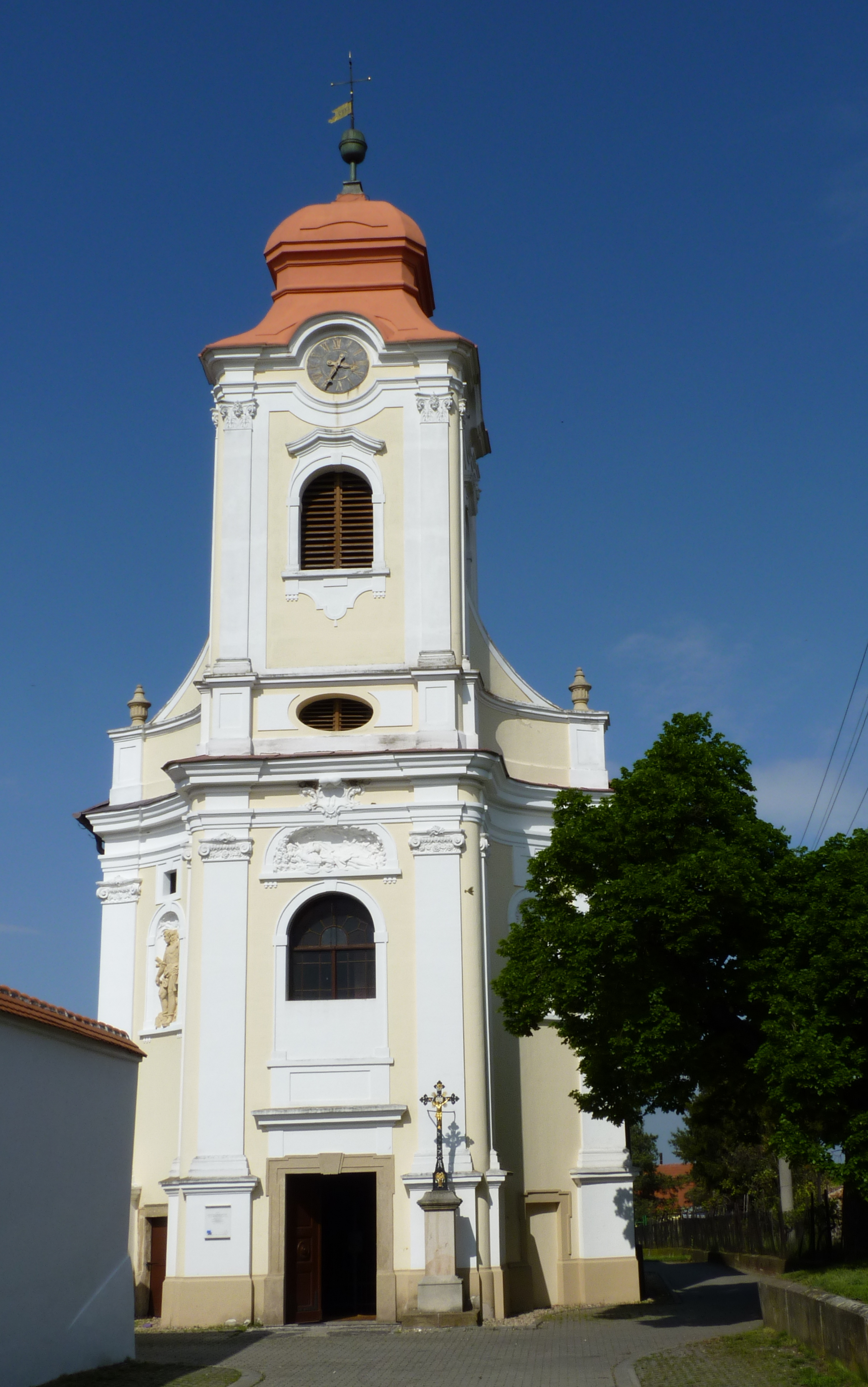 Church of Saint Rosalia. Horni Vestonice. Palava, South Moravian Region, Czech Republic Project: Chráněná území